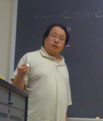 Dr. Stephen Lee (* 25. Oktober 1955 in New York), Chemist and Professor at Cornell University